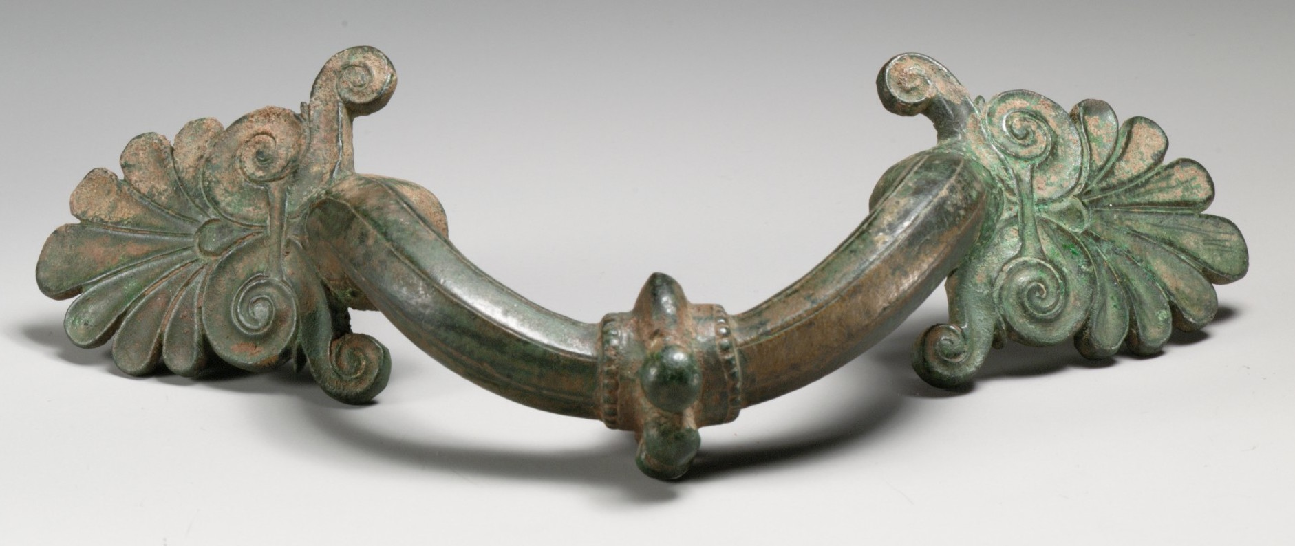 Greek; Handles of a hydria; Bronzes